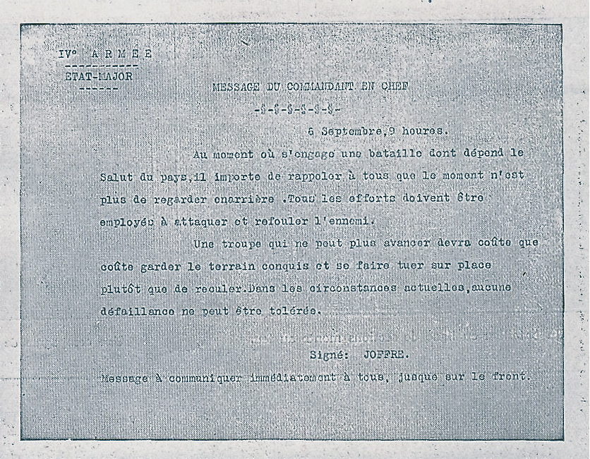 "Ordre du jour" for the Battle of the Marne by Gen.Joffre, sept.1914